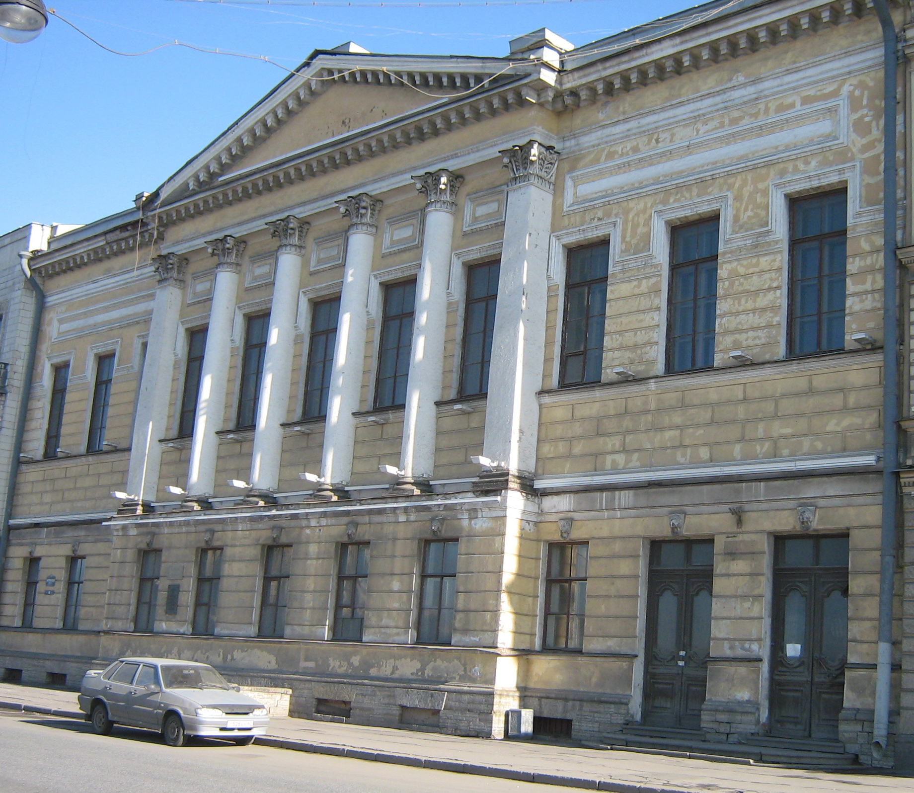 Saint Petersburg (Russia), English Embankment.